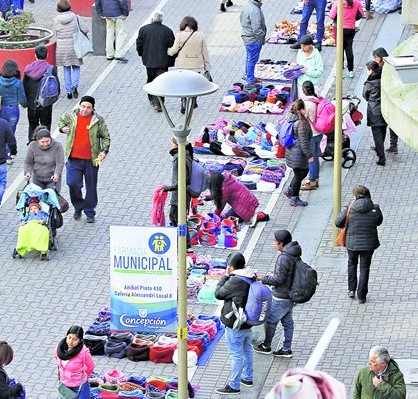 Chilean street vendors selling clothes in Concepcion